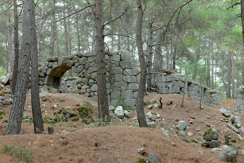 Kadyanda, Turkey